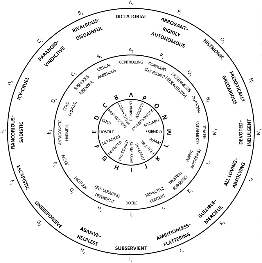 1982 Interpersonal Circle From: Donald J. Kiesler (1983): [ 'The 1982 Interpersonal Circle: A Taxonomy for Complementarity in Human Transactions' in Psychological Review, Volume 90, Number 3, p. 189